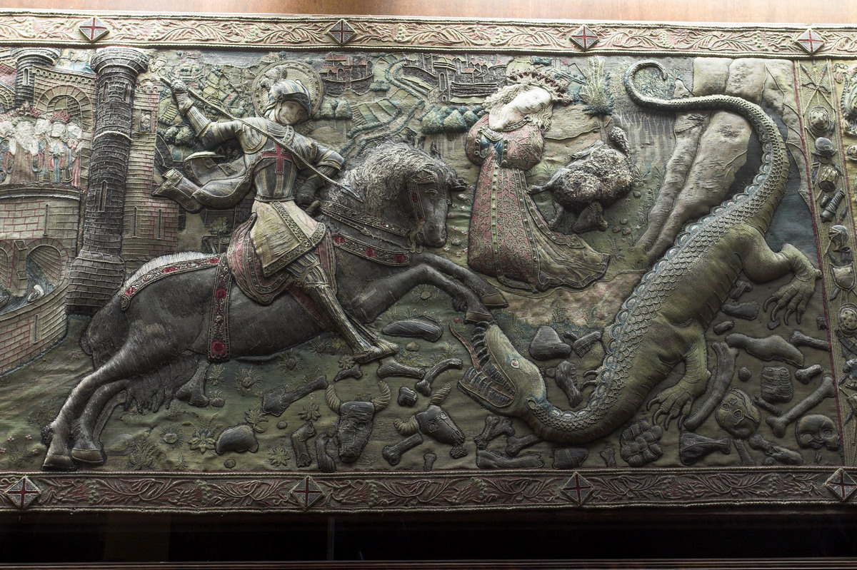 Embroidered clothing of Saint George and the Dragon, at St. Jordi chapel of Palau de la Generalitat (Catalan Government Seat) in Barcelona. 15th century - by Antoni Sadurní.